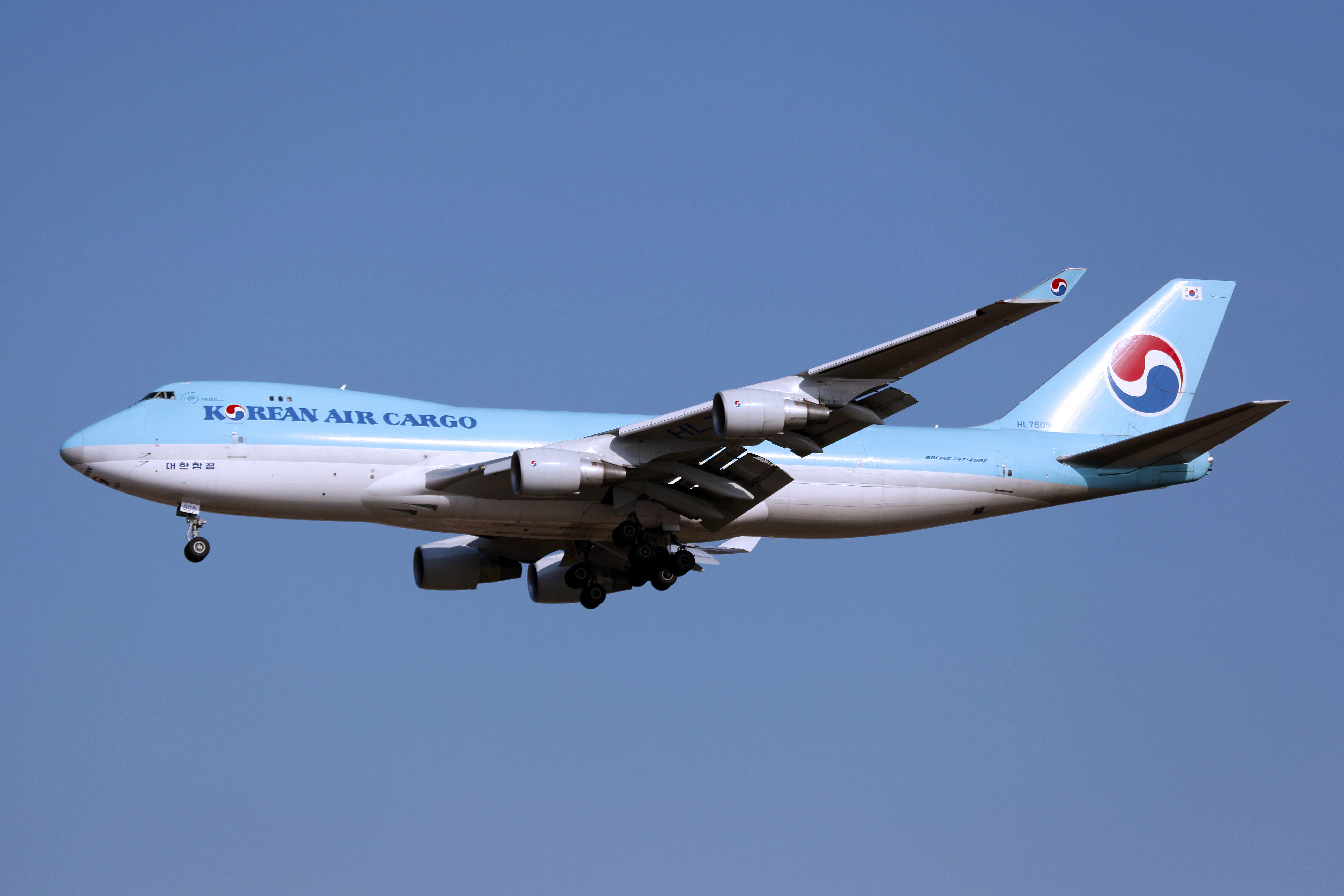 HL7605 | Korean Air Lines | Boeing 747-4B5F(ER) | Seoul Incheon International Airport [ICN]